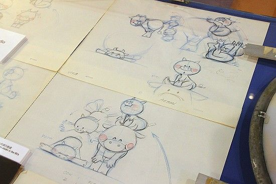 60 Years of Hong Kong Animation